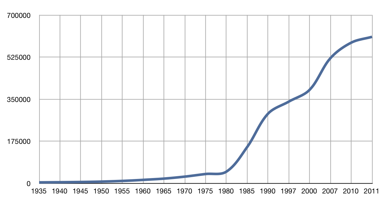 Pendik (Istanbul), Population Development